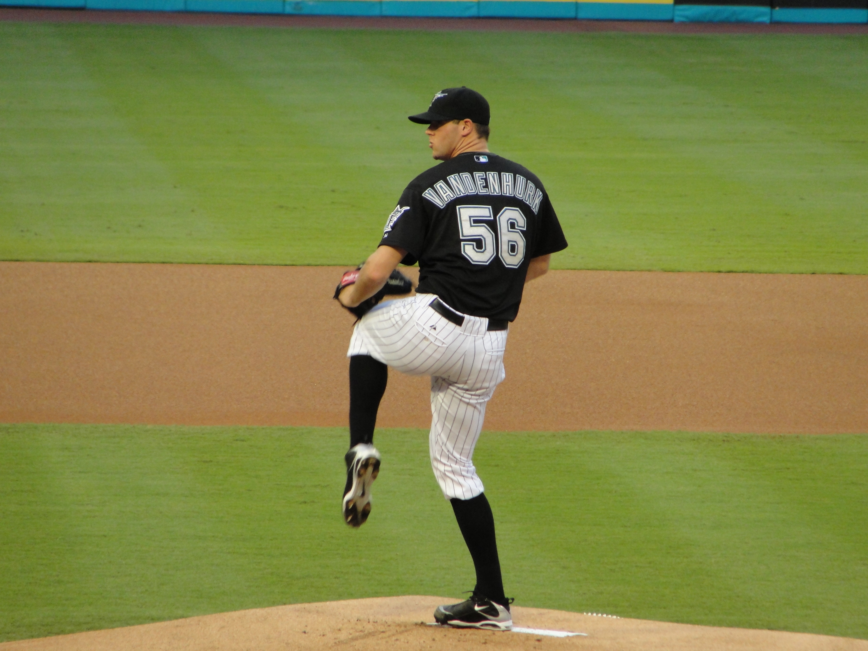 Rick VandenHurk of the Florida Marlins throwing a pitch on September 3, 2009 vs Atlanta Braves.